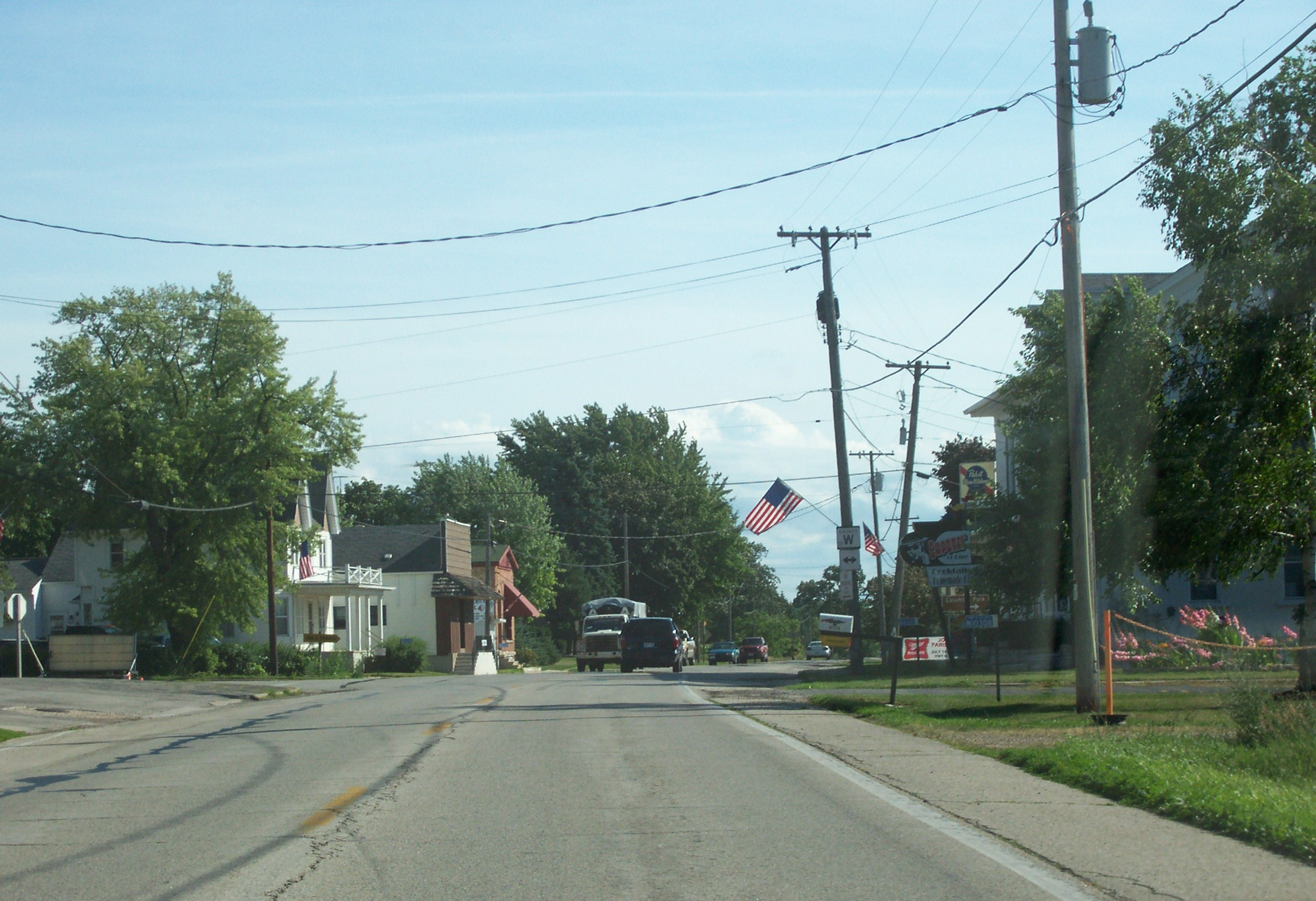 Looking south at downtown Pipe, Wisconsin, USA while traveling on U.S. Route 151.